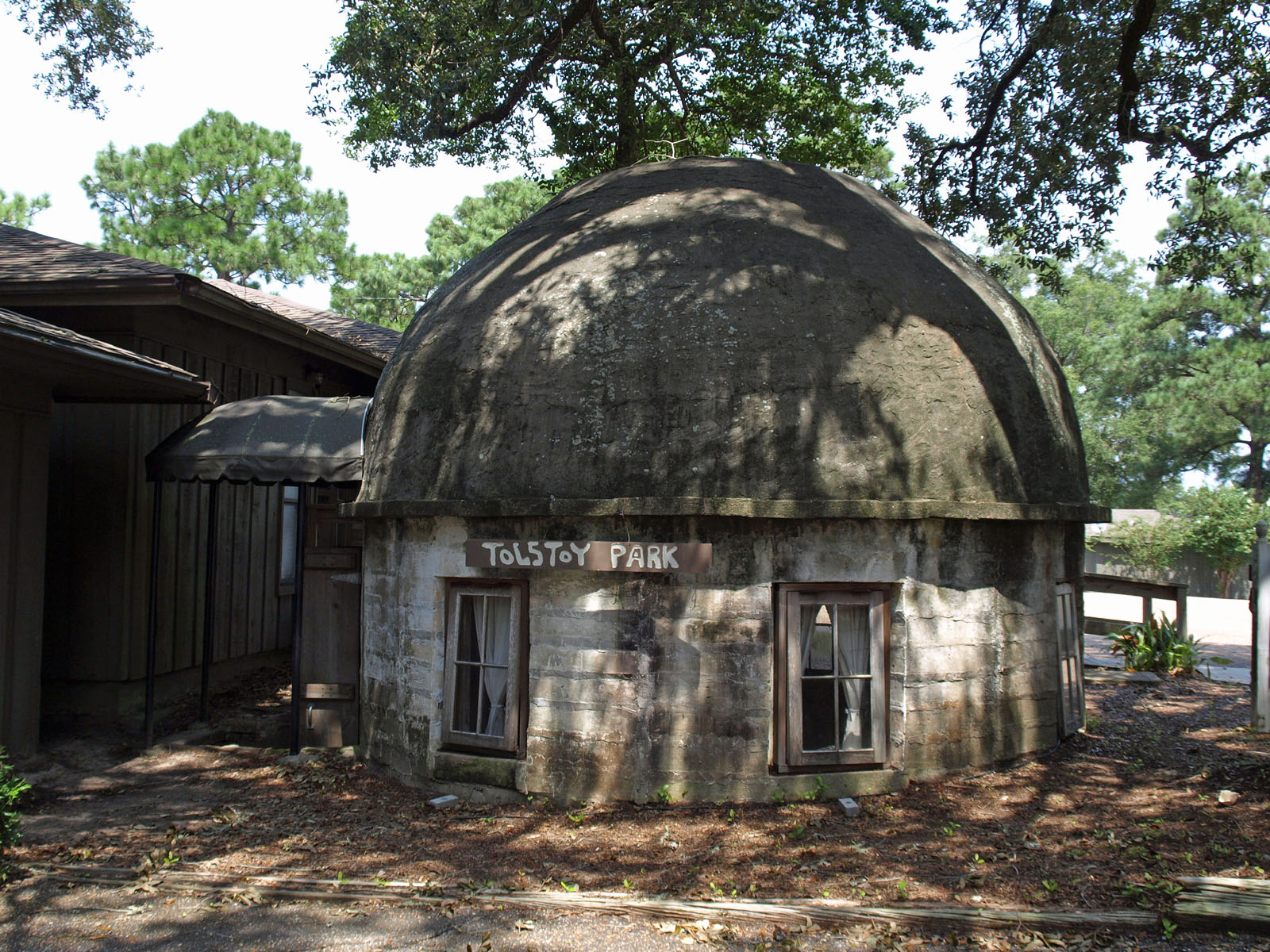 Tolstoy Park (also known as the Henry Stuart House and the Hermit House) in Montrose, Alabama; listed on the National Register of Historic Places